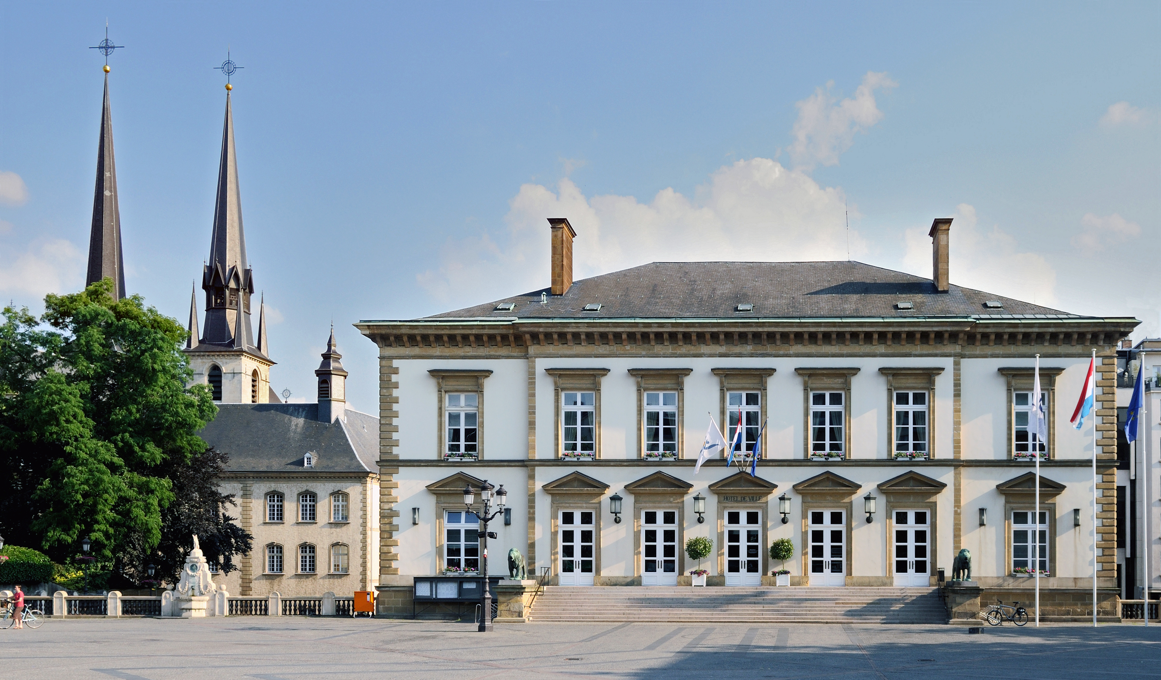 Luxembourg City, square Guillaume II: City Hall and cathedral.